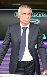 Former football defender (now manager) Hector Cuper during a Fiorentina-Parma match